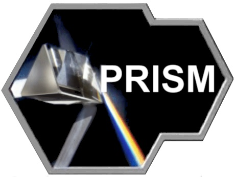 Logo for the NSA's PRISM surveillance program/computer system.